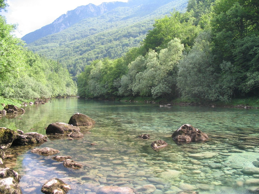 1,4 km of the Piva River flow through Bosnia and Herzegovina, before finally meets the Tara and create the Drina River.